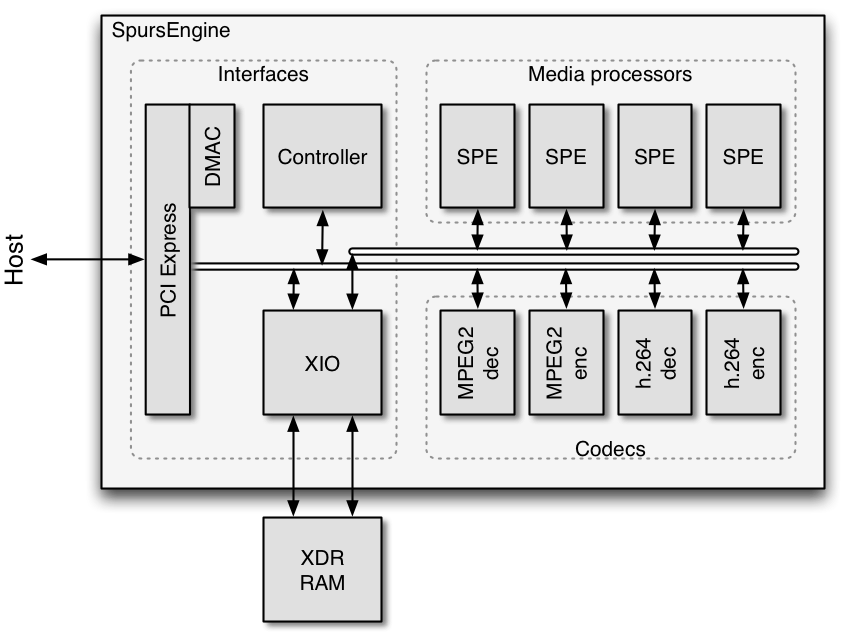 Schematic over the Toshiba SpursEngine processor